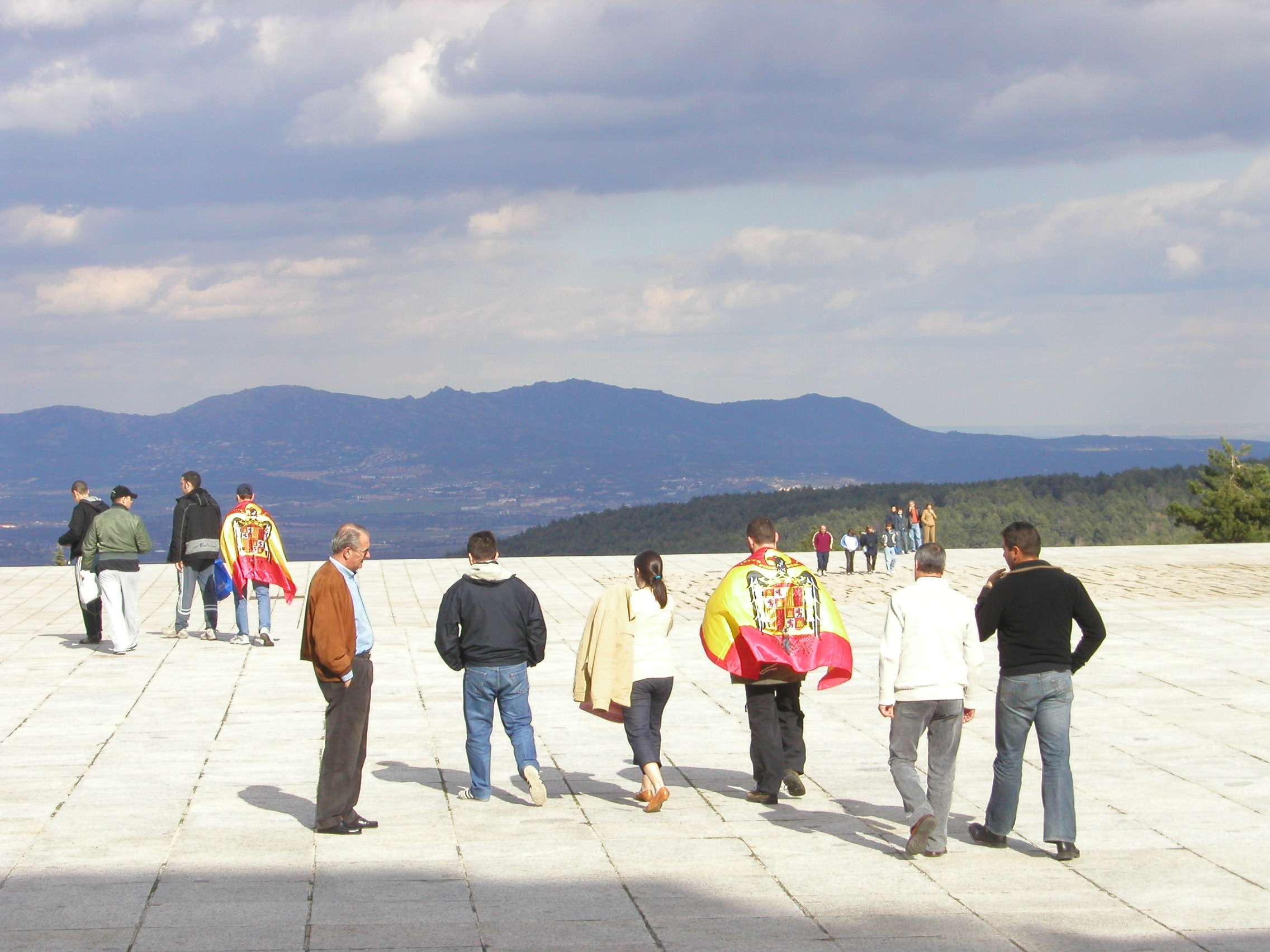 El Valle De los Caidos, Spain, vistors sporting flag of Spain under Francisco Franco